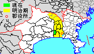 Map of Koza, District, Kanagawa, Japan. Yellow area represents Koza-Gun in the Meiji era and green area that in the present.